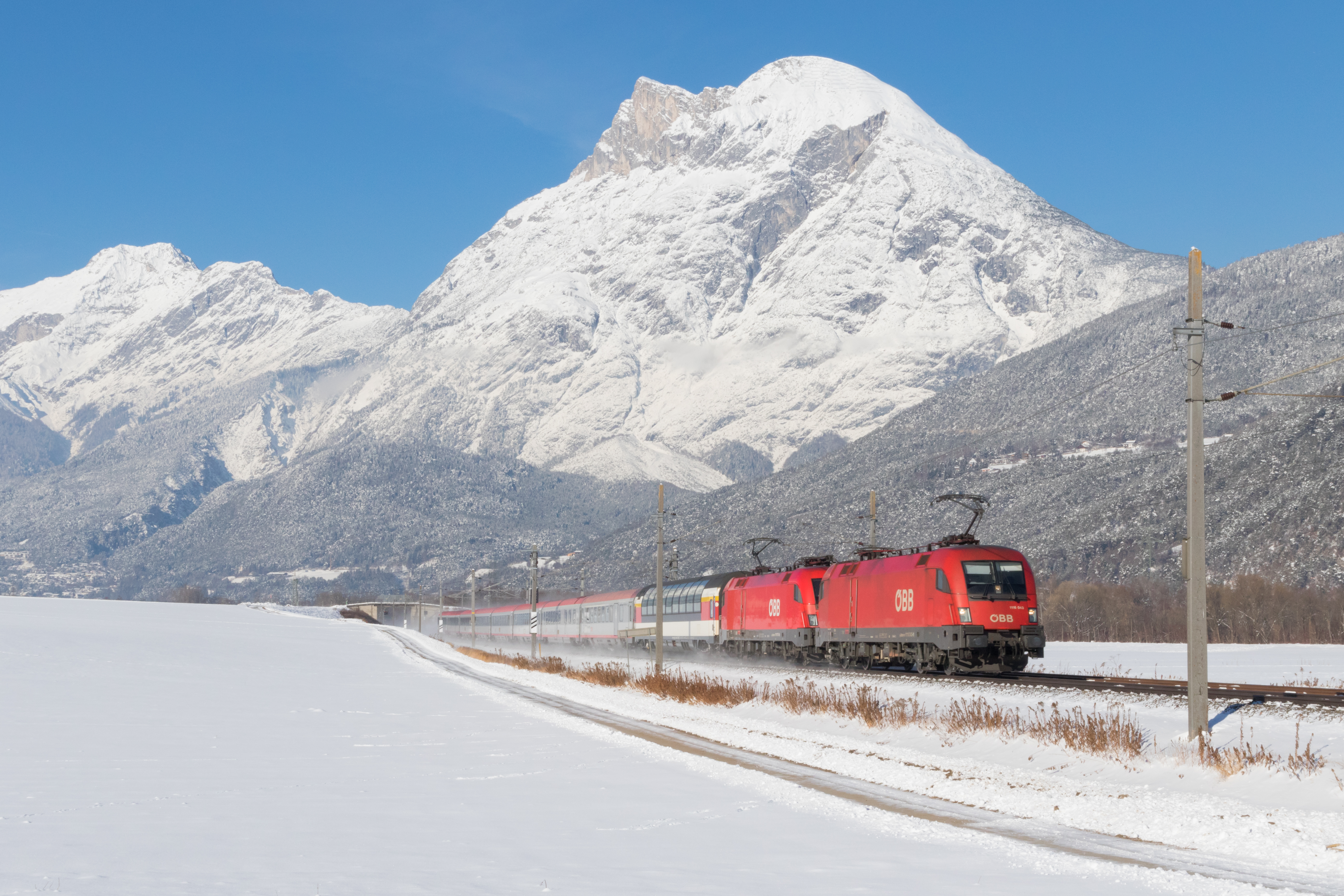 EC 163 „Transalpin“ from Zürich to Graz passes Flaurling on the Arlbergbahn with the "Hohe Munde" (2663 m = 8737 ft) in the background